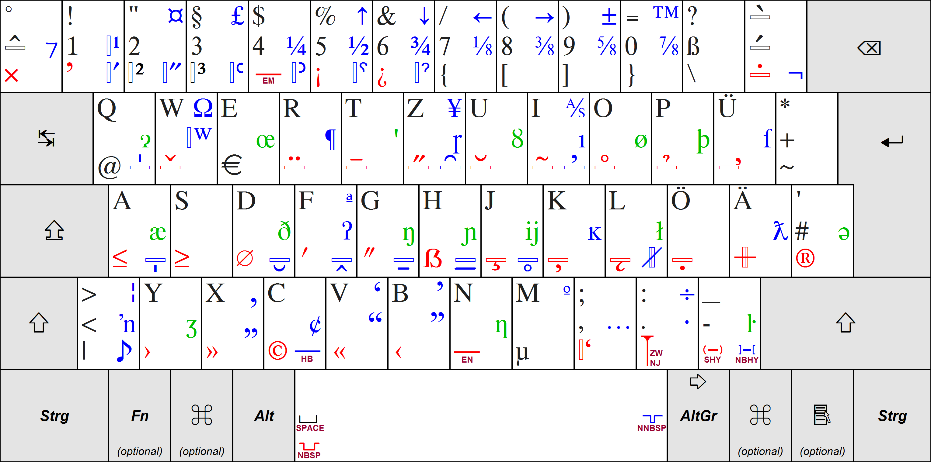 German Keyboard Layout T3 according to draft DIN 2137:2012